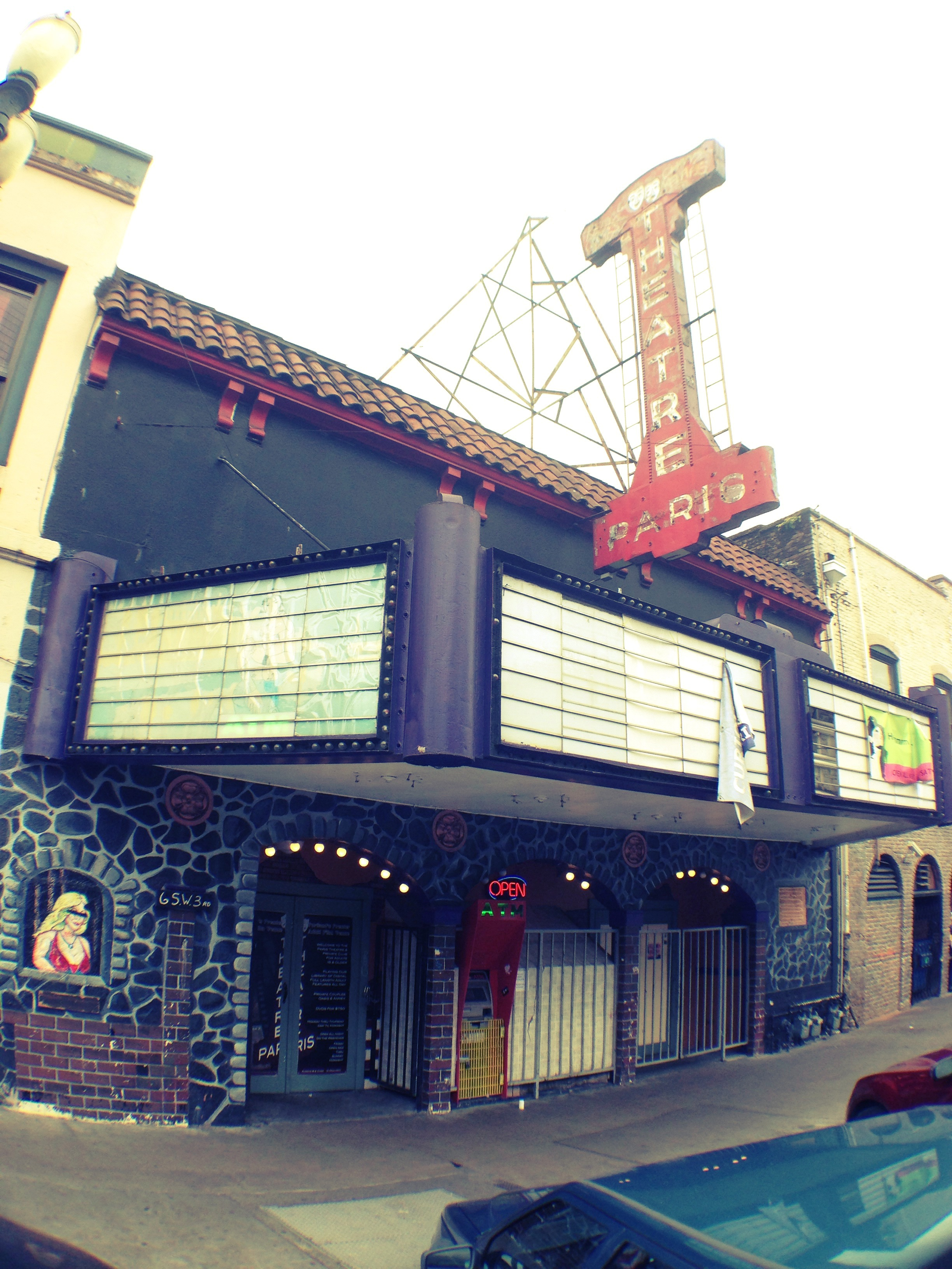 Paris Theatre in downtown Portland, Oregon